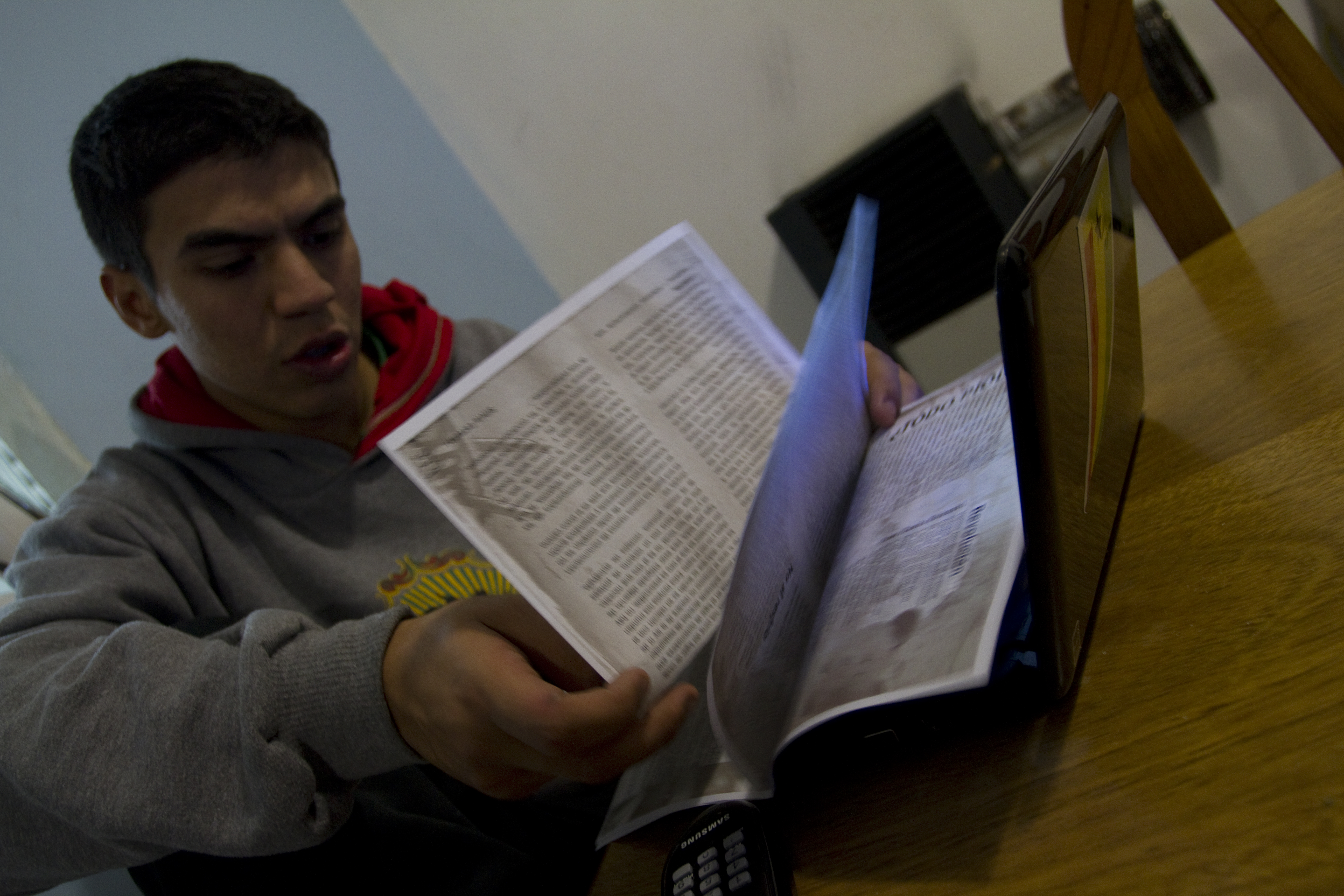 Camilo Blajaquis´s portrait, argentine writer.